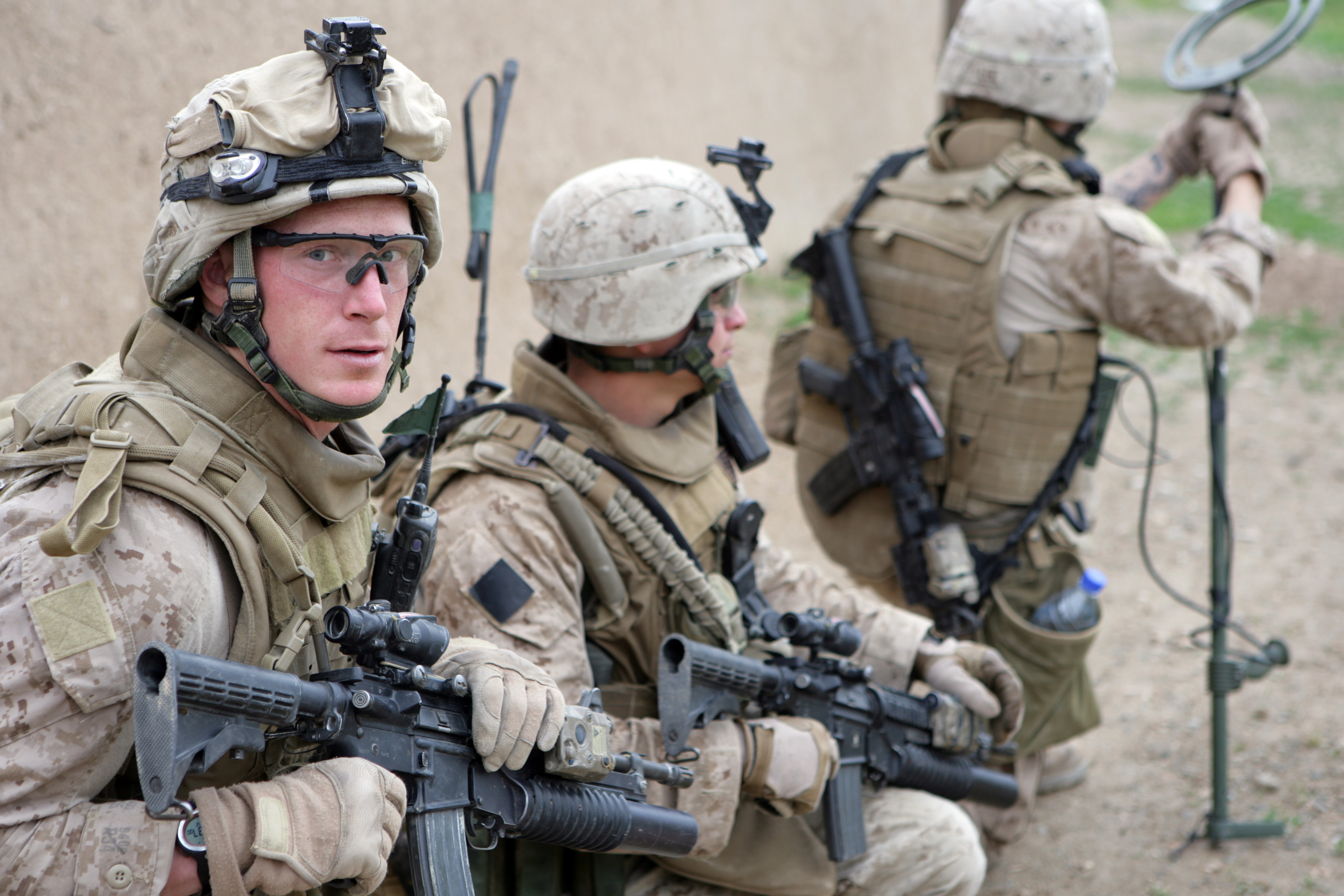 U.S. Marines with Lima Company, 3rd Battalion, 8th Marine Regiment conduct a local security patrol in the abandoned village of Now Zad, Helmand province, Afghanistan, on April 12, 2009. The Marines are conducting security patrols in their area of operation to prevent enemy freedom of movement in order to bring peace and stability to the area. The 3rd Battalion is the ground combat element of Special Purpose Marine Air Ground Task Force - Afghanistan.